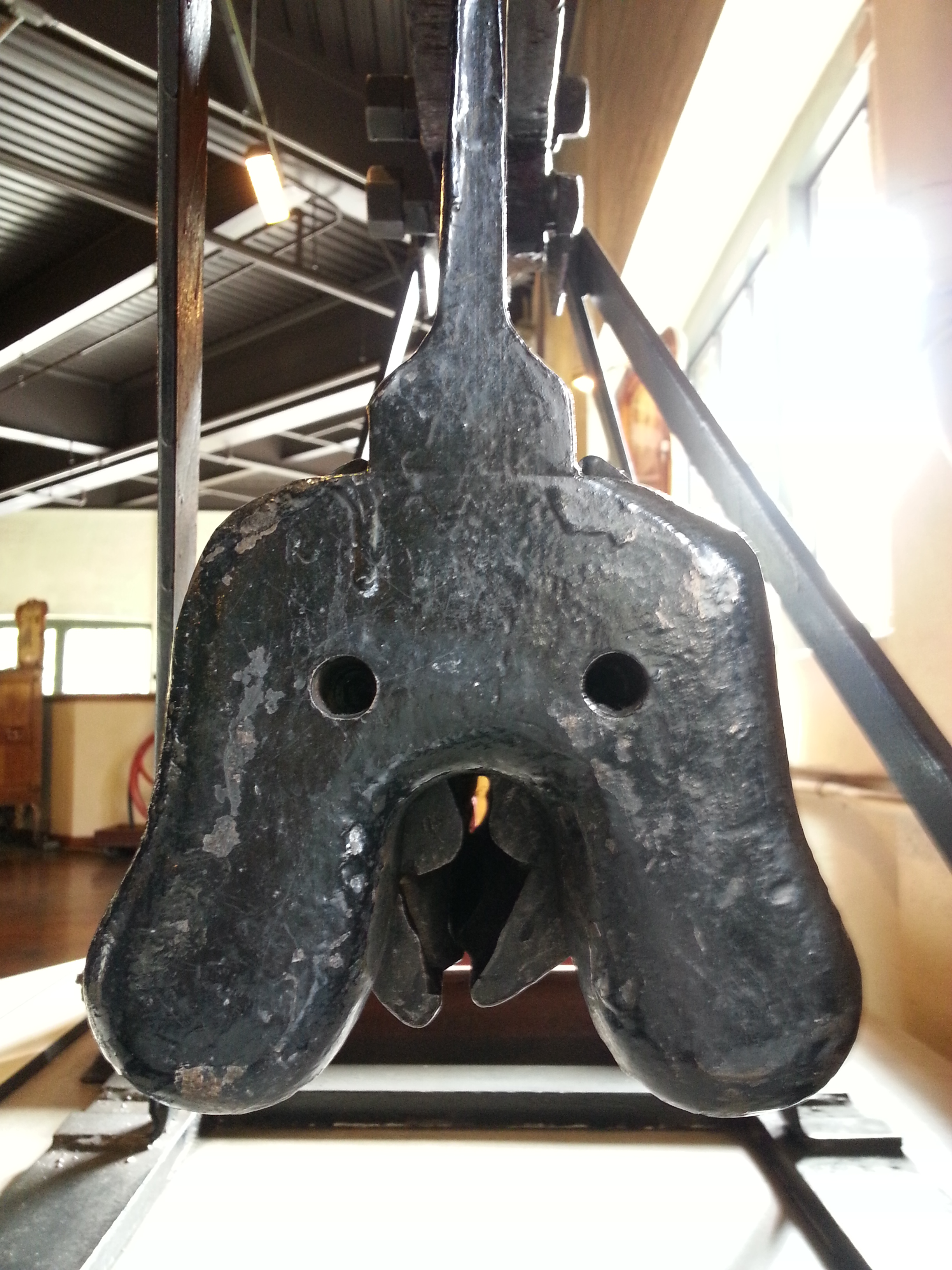 Grip of a cable car, without cable (jaws closed), as displayed at the San Francisco Cable Car Museum